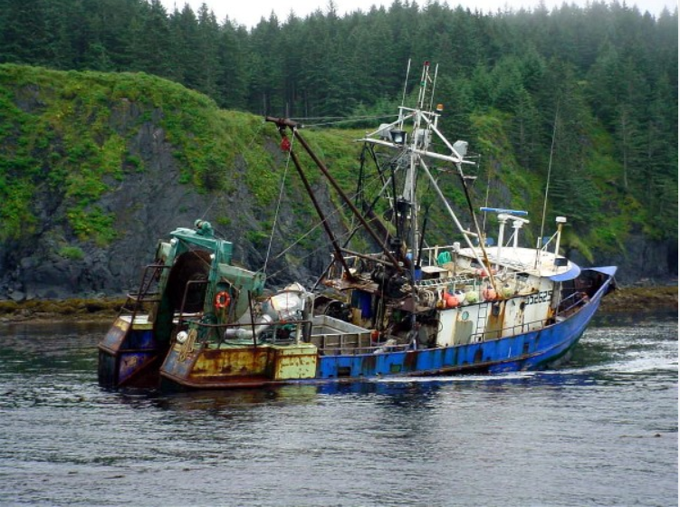 The American fishing vessel Provision aground on the northwest end of Long Island in the Kodiak Archipelago near Kodiak, Alaska.